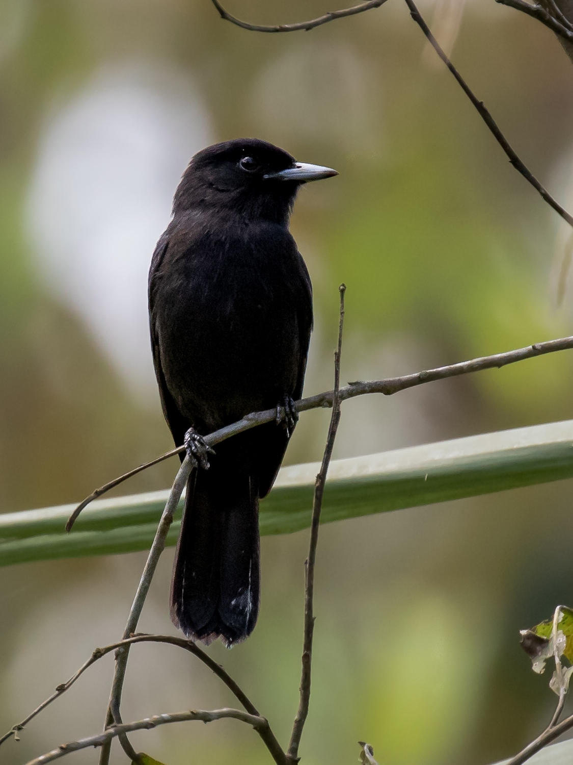 Riverside tyrant (male); Marchantaria island, Iranduba, Amazonas, Brazil